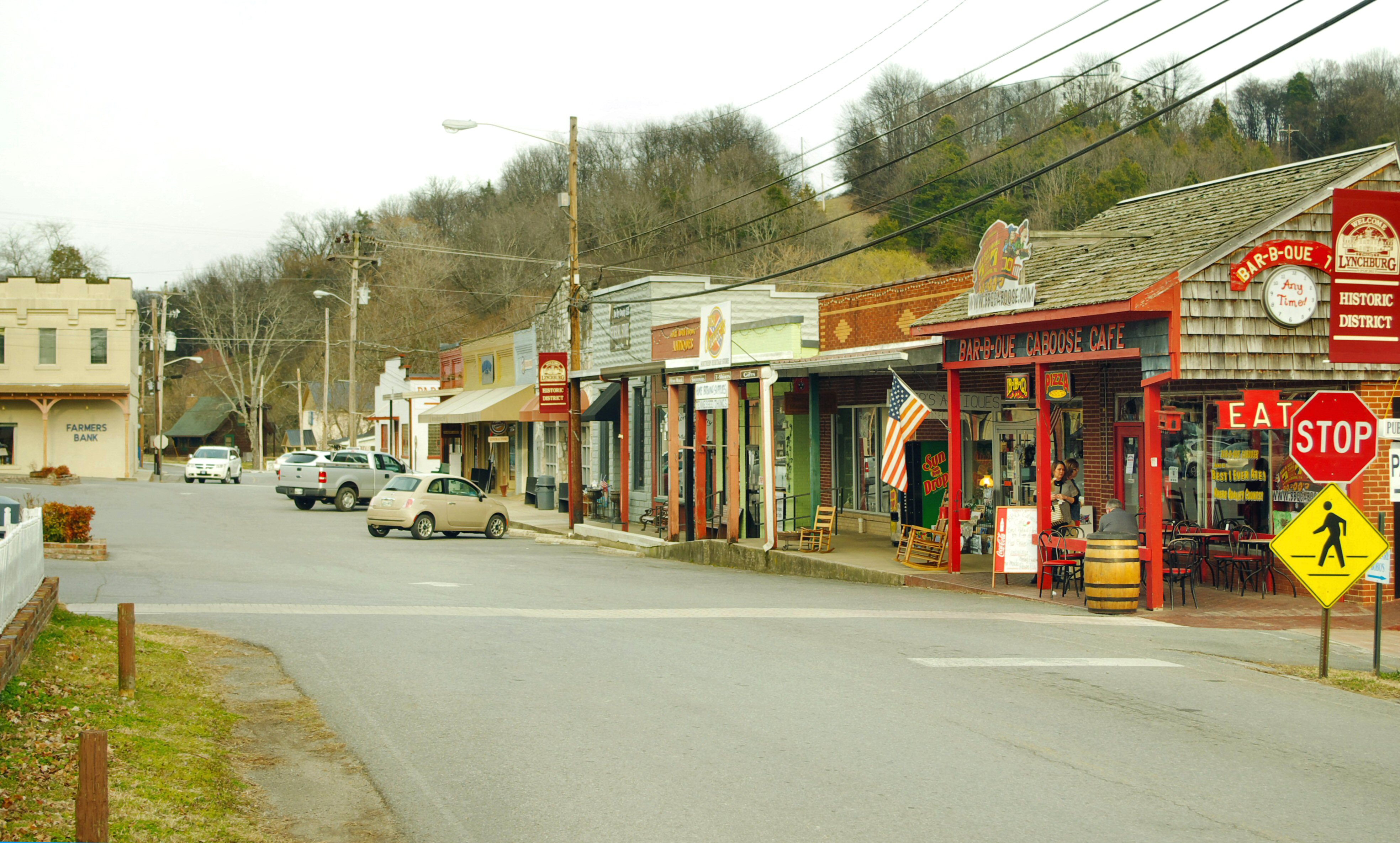 Shops along Main Street in Lynchburg, Tennessee, United States